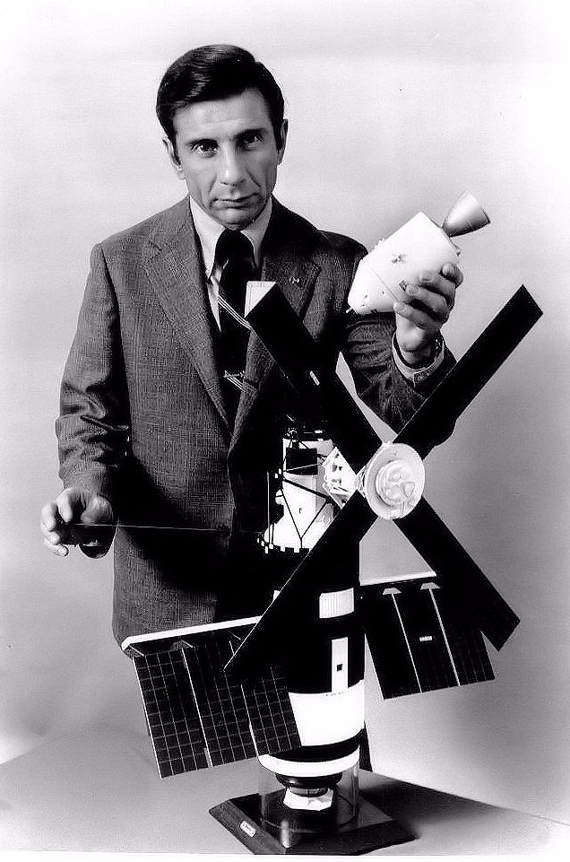 Publicity photo of ABC News science correspondent Jules Bergman with a model of Skylab.